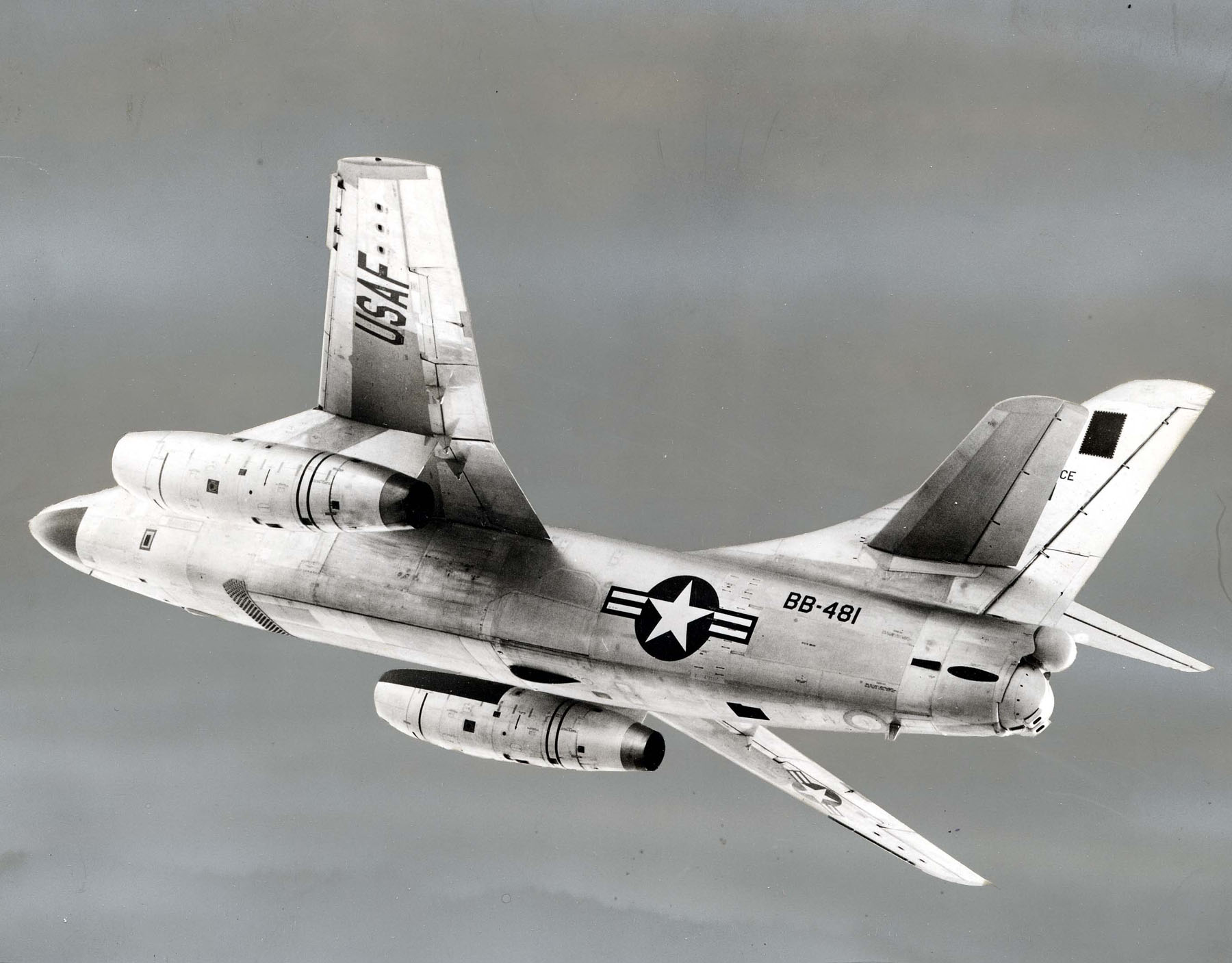 Douglas RB-66B Destroyer in flight (SN 53-481)